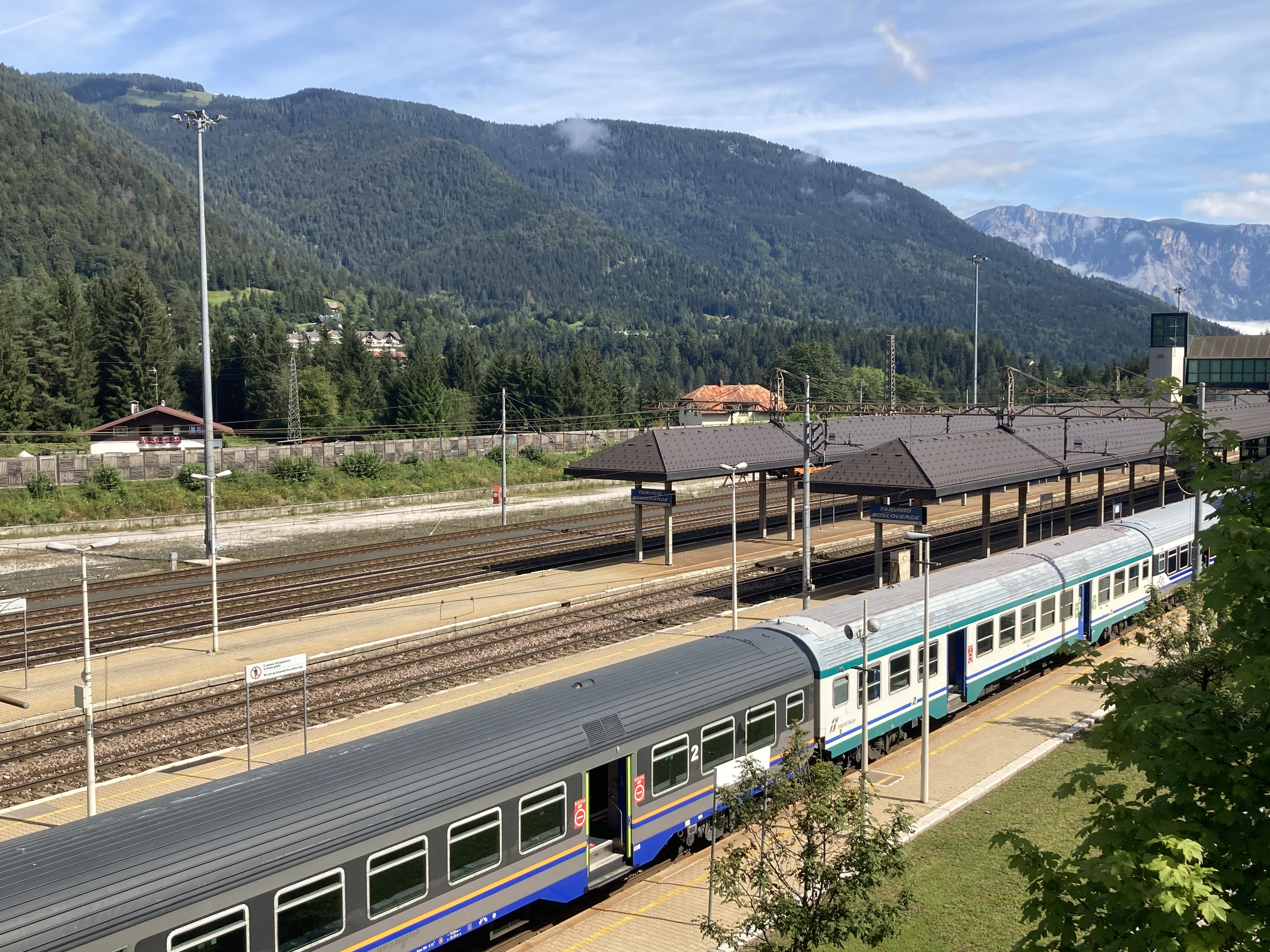 The Station of Tarvisio Boscoverde from above